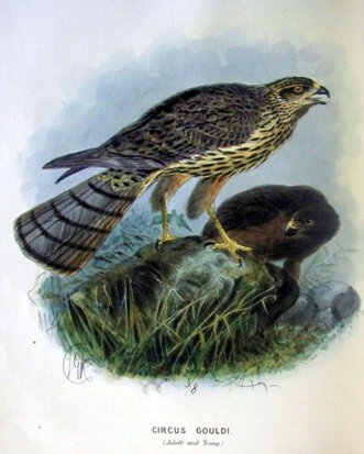 Title “Circus gouldi (Adult and Young)”. Juvenile (right) and adult Swamp Harrier (Circus approximans gouldi), subspecies of New Zealand. Originally published in: Walter Lawry Buller: Birds of New Zealand, 1873.